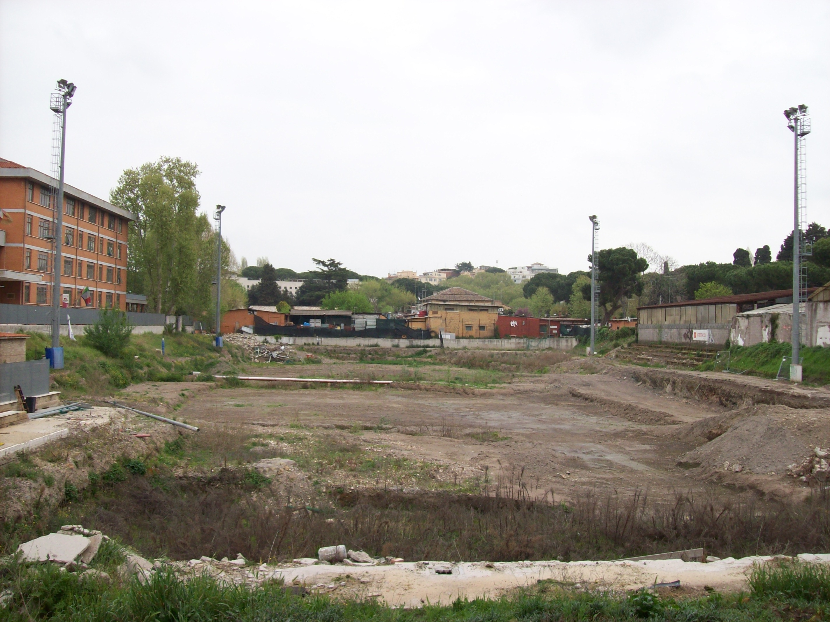 The Campo Testaccio, former stadium of AS Roma from 1929 until 1940; in 2000 the stadium was re-built and used by a local team; in 2011 it was demolished and its area was destined for building a park lot